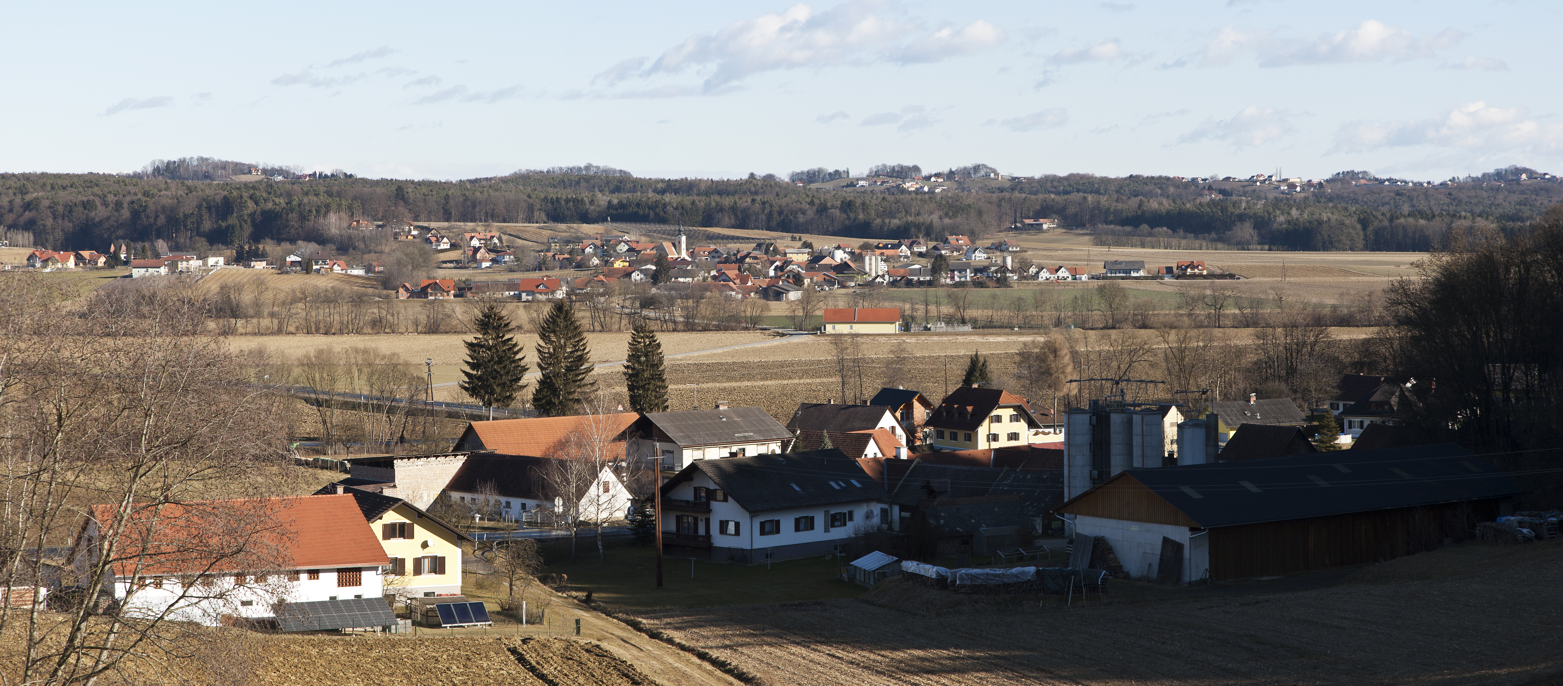 View of St. Kind with the village of Neustift in the foreground